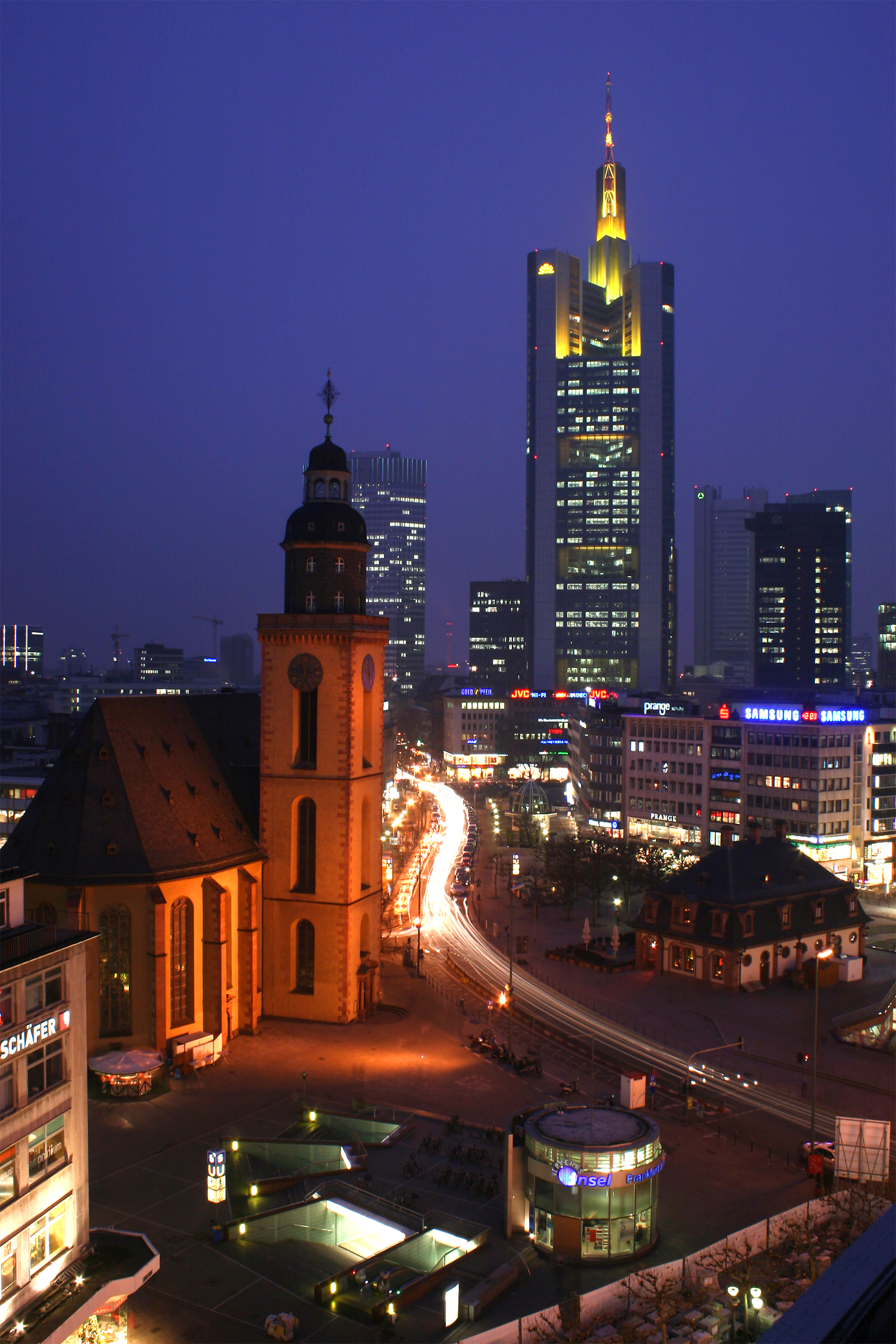 the Hauptwache in Frankfurt am Main, Germany